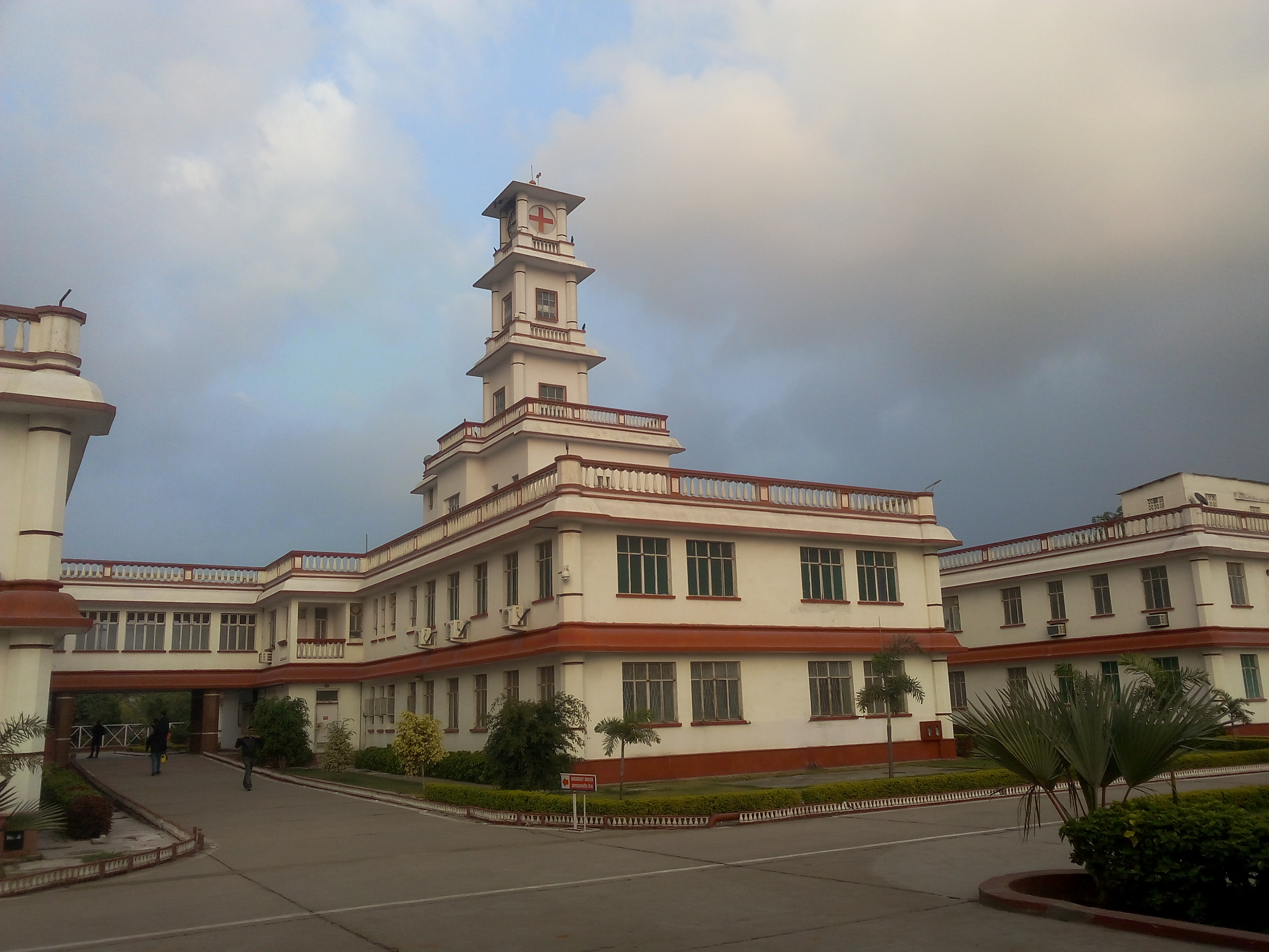 A good hospital at satna